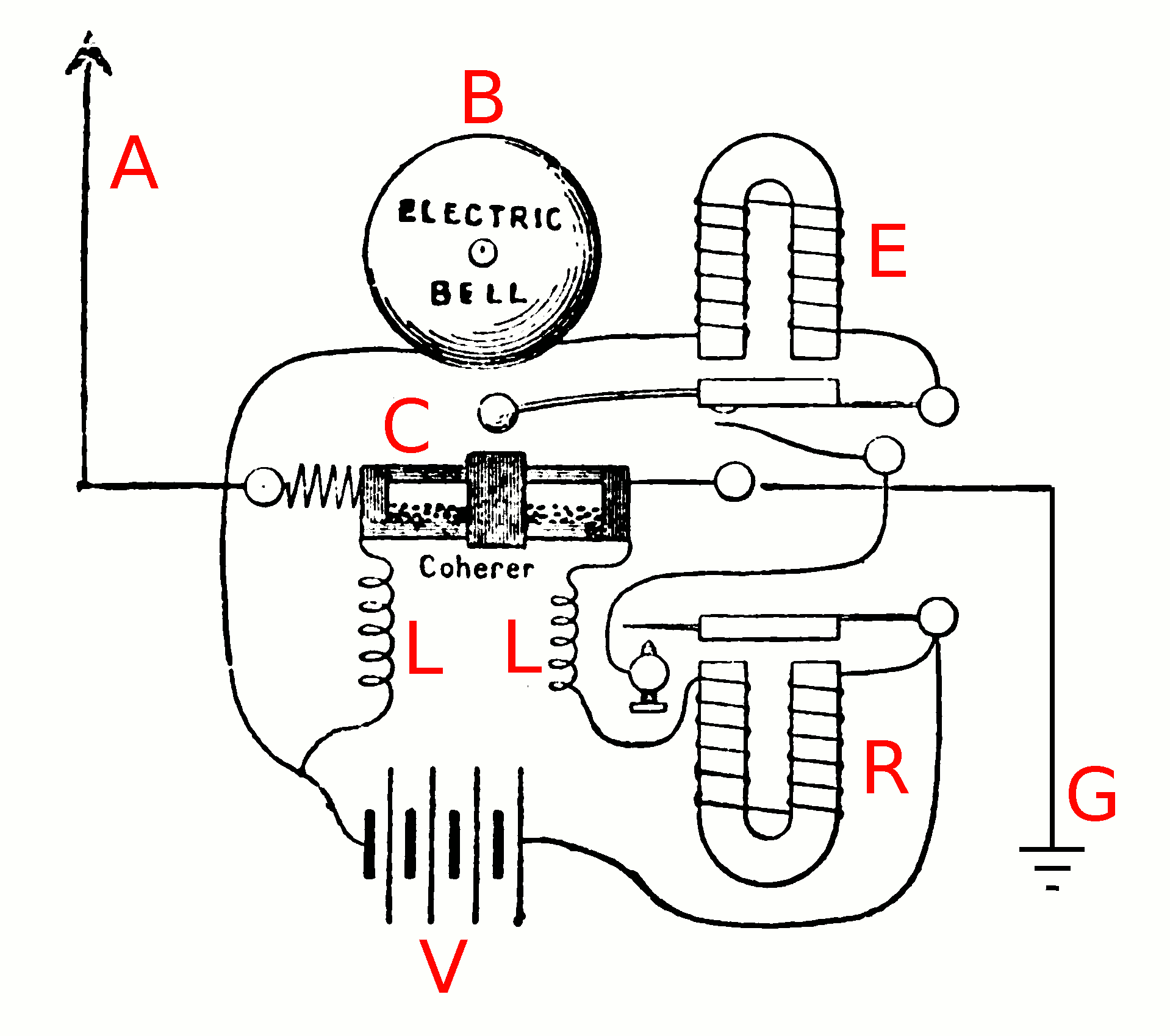 Pictorial diagram of the circuit of Alexander Stepanovich Popov's 1895 coherer receiver, one of the earliest radio receivers. Built as a lightning detector, to warn of approaching thunderstorms by detecting the radio pulses from lightning strikes, Popov first demonstrated it before the Russian Physics and Chemical Society in St. Petersburg 7 May 1895 by receiving transmissions from a spark gap transmitter. The device uses a primitive radio wave detector called a coherer (C), consisting of a glass tube containing metal filings between two electrodes. When radio waves are applied to the coherer electrodes it causes the coherer to become conductive. Before it can receive another signal, the metal filings must be mechanically disturbed by tapping the coherer, to restore it to the high-resistance receptive state. An advantage of Popov's receiver is that the coherer is automatically reset immediately after receiving a signal by tapping the glass tube with the arm of the electric bell used to indicate the arrival of the radio signal. The electrodes of the coherer are connected to a wire aerial (A) and a ground (earth) connection (G). The coherer electrodes are also connected in a second circuit to a battery (V) and a relay (R). When a radio signal from the antenna is applied across the electrodes, it causes the metal filings to become conductive. The current from the battery passes through the coherer and the relay's electromagnet, closing its contacts. This applies current to the bell's electromagnet (E), which pulls it's springy arm over to tap the bell (B). When the arm springs back it taps the coherer, resetting it. The relay is needed because the coherer won't pass enough current to ring the bell by itself. The chokes (L) prevent the impulsive radio noise from the relay's contacts from triggering the coherer again. Alterations to image: added ground symbol, labeled parts in red.